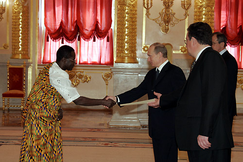 GRAND KREMLIN PALACE, MOSCOW. Letter of credential is presented by the Ambassador of the Republic of Ghana, Edward Apau Mantey.